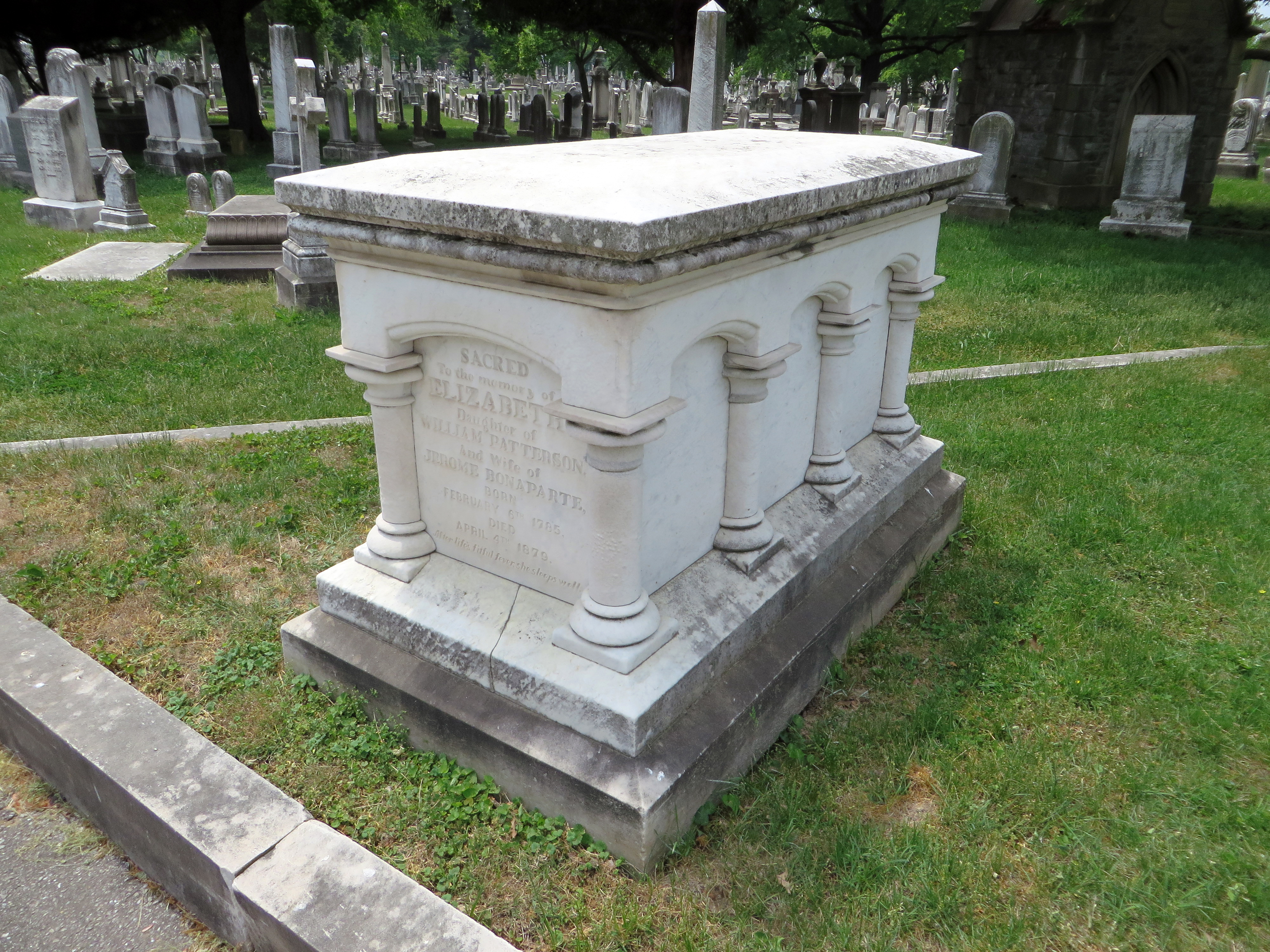 Elizabeth Patterson Bonaparte gravestone, three quarter view, in Greenmount Cemetery, Baltimore, Maryland